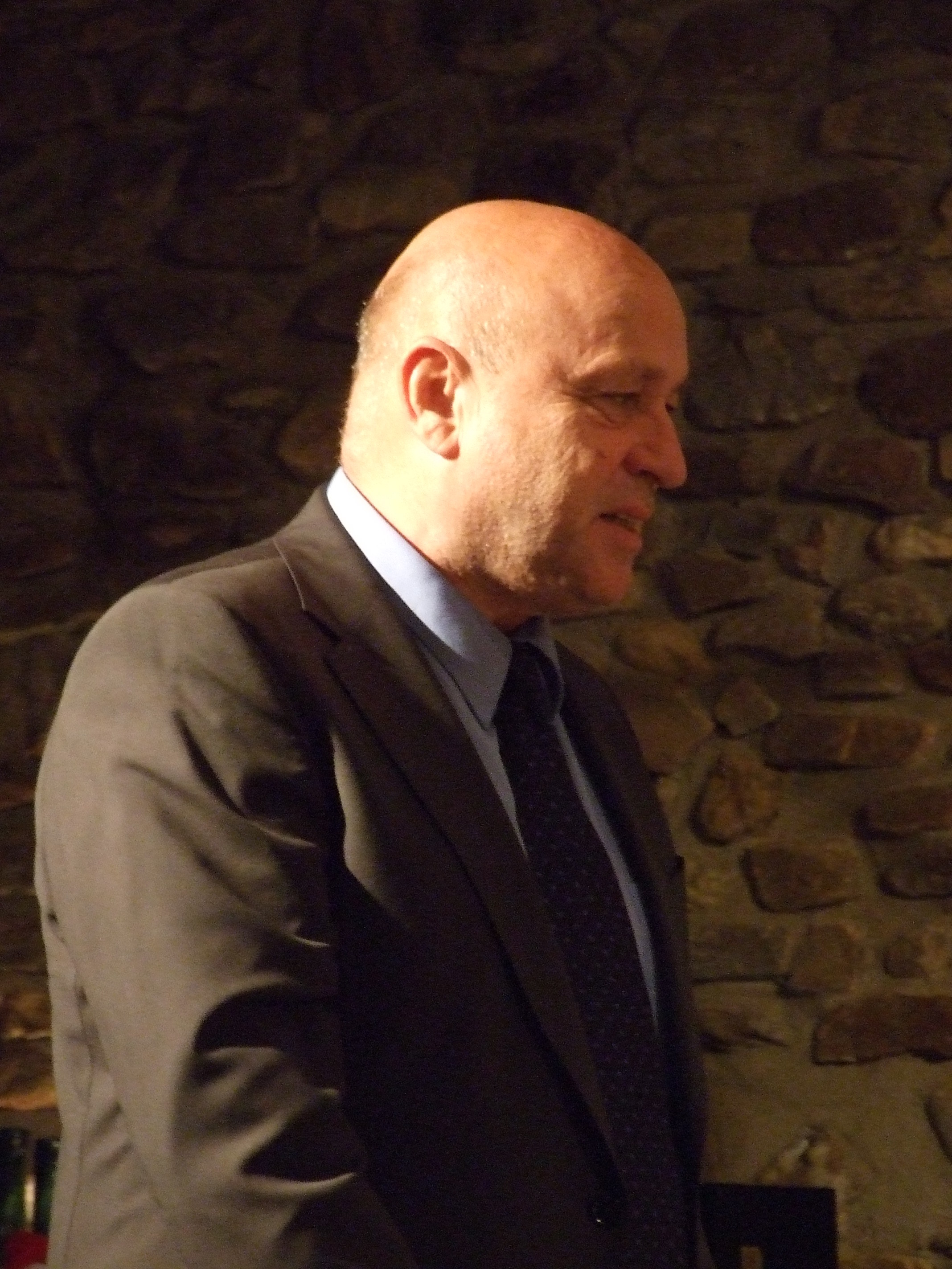 Heiner Boehncke at Oestrich-Winkel during "Rheingau Literatur Festival" 2009